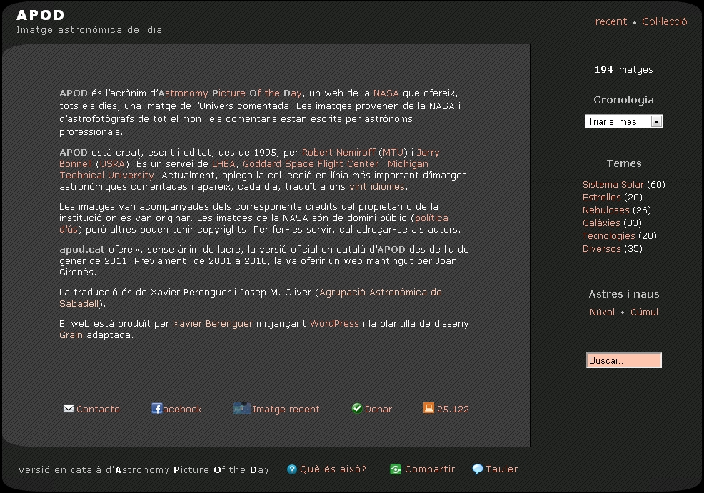 Translation to catalan of NASA's APOD web